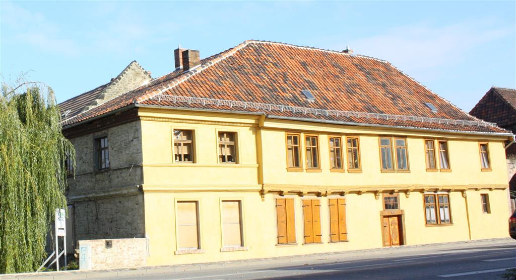 Building in Quedlinburg / Germany